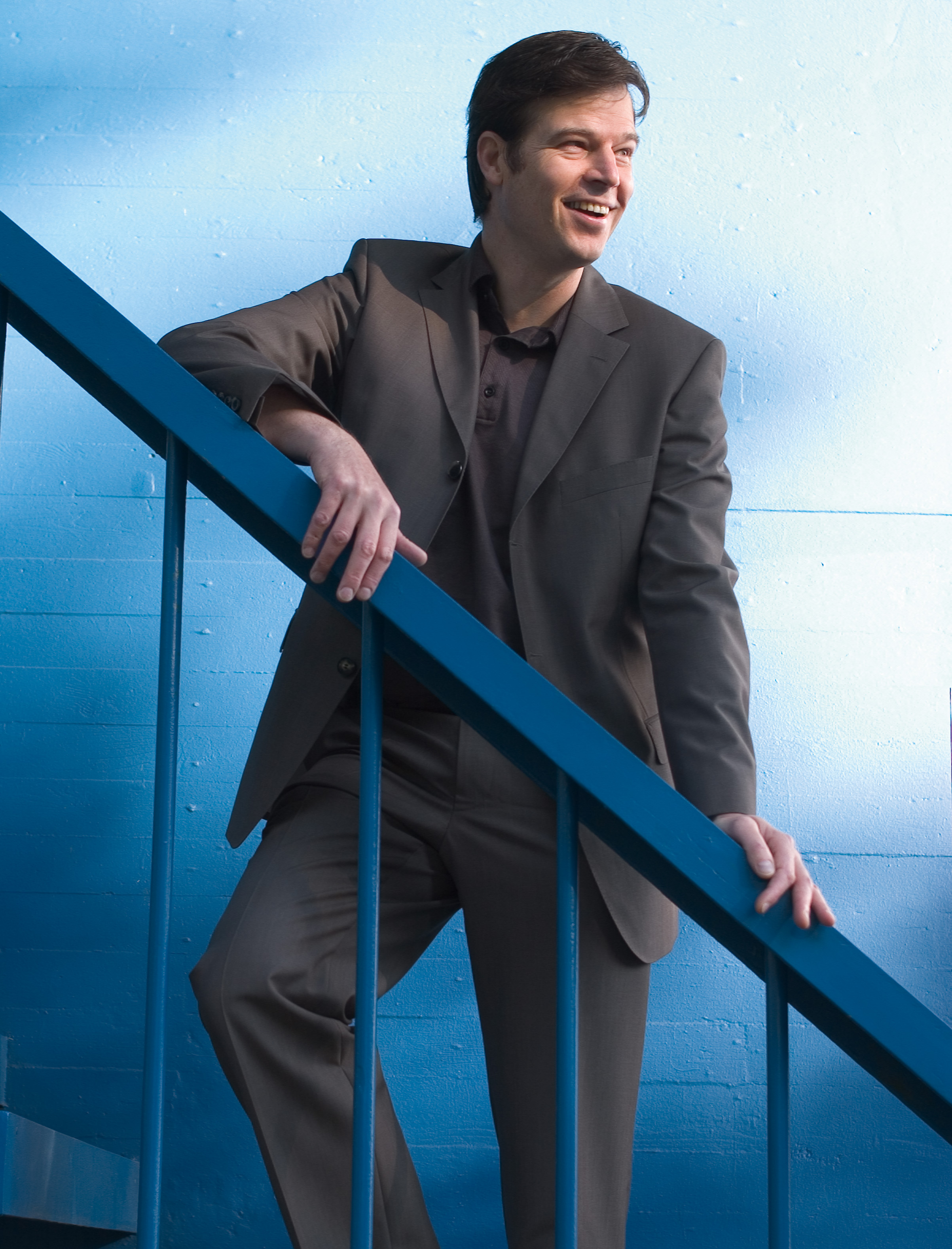 Dutch civil engineer René de Borst (1999)